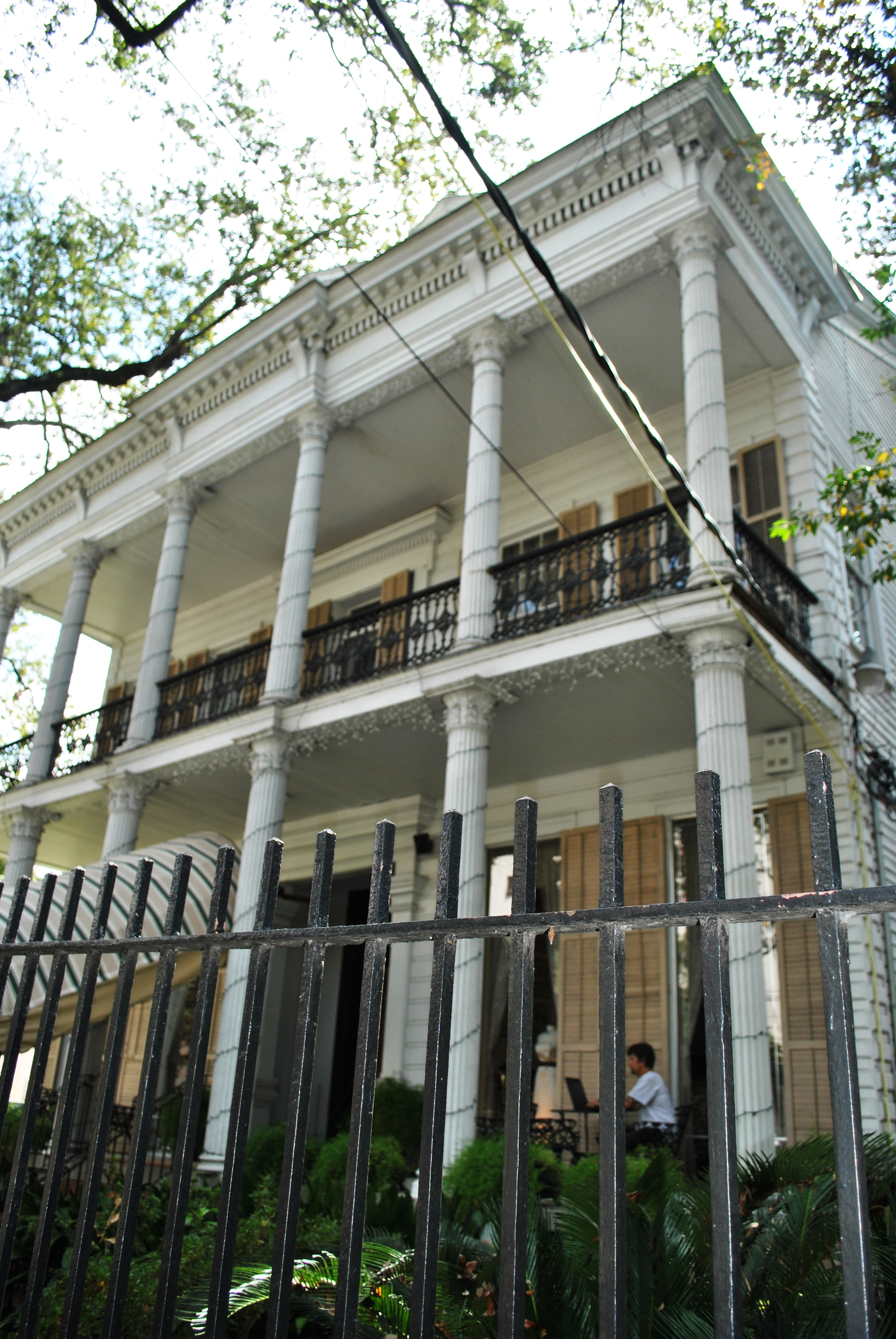 Garden District